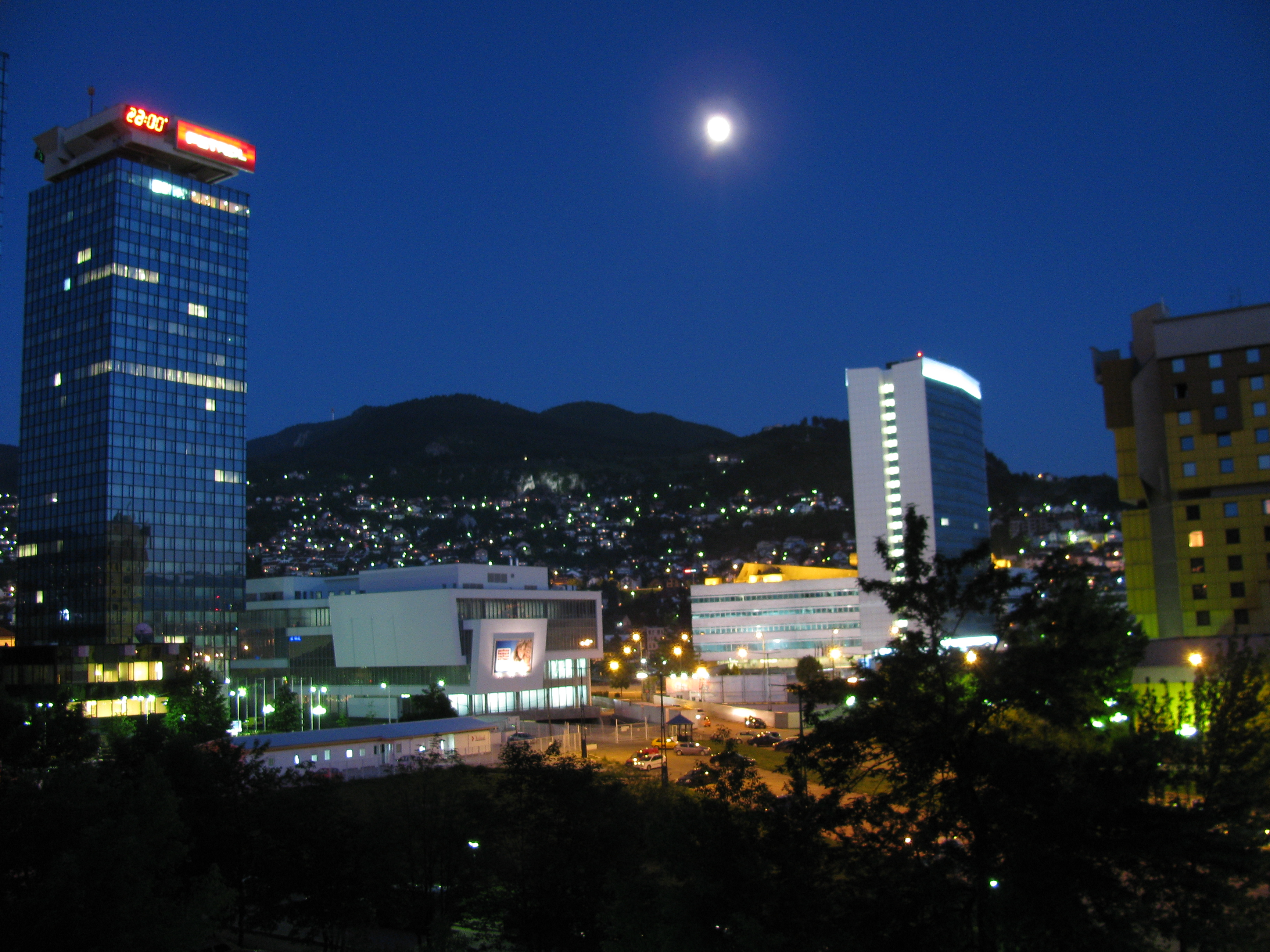 Marijin Dvor twilight and moonlight